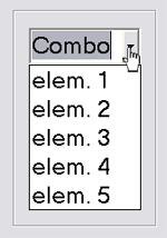 combo box